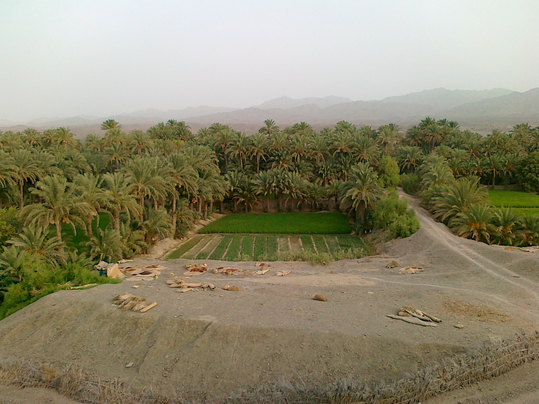 Date palm orchards and other crops in Tejaban (Balochistan, Pakistan).